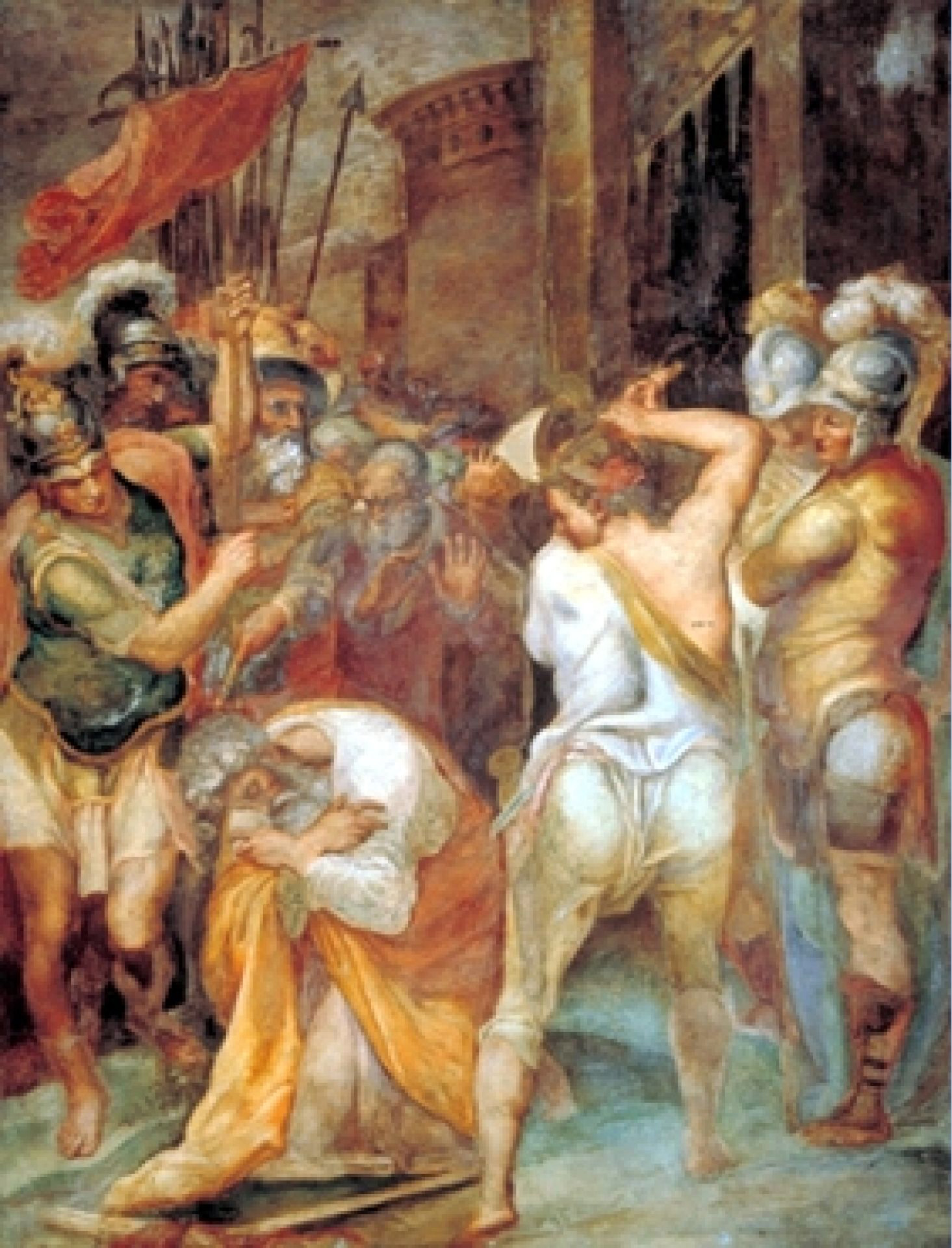 Taddeo Zuccari, Decollazione di San Paolo, church of San Marcello al Corso, Rome, 1558–1559